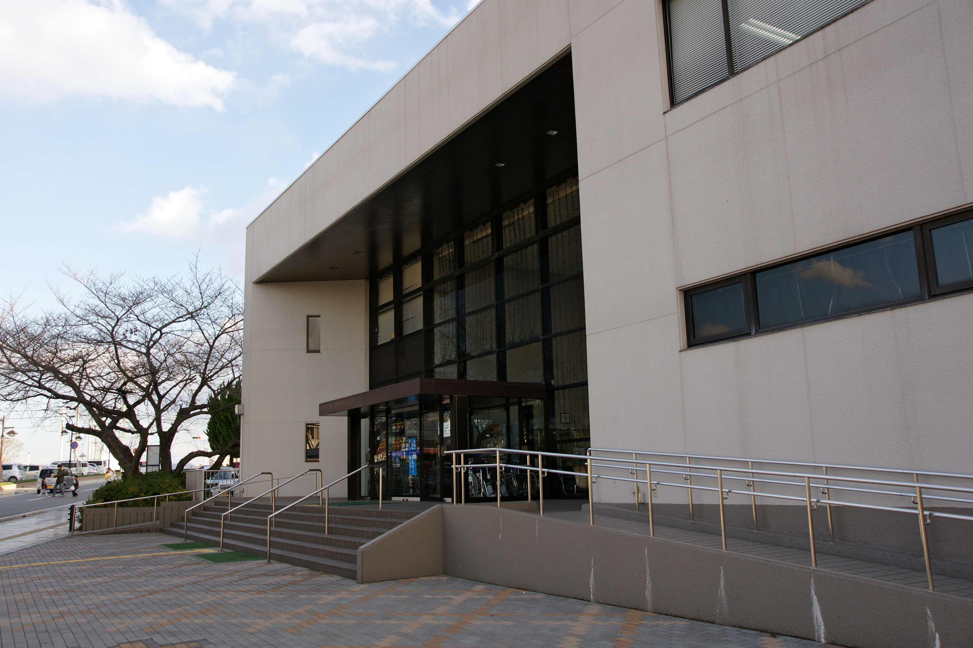 Ono City Tradition Industrial Hall in Ono, Hyogo prefecture, Japan.